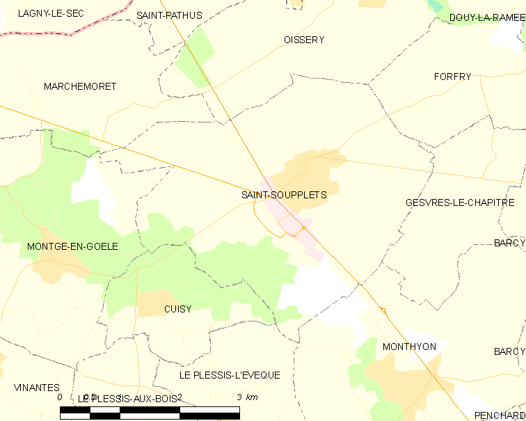 Map of French municipality Saint-Soupplets